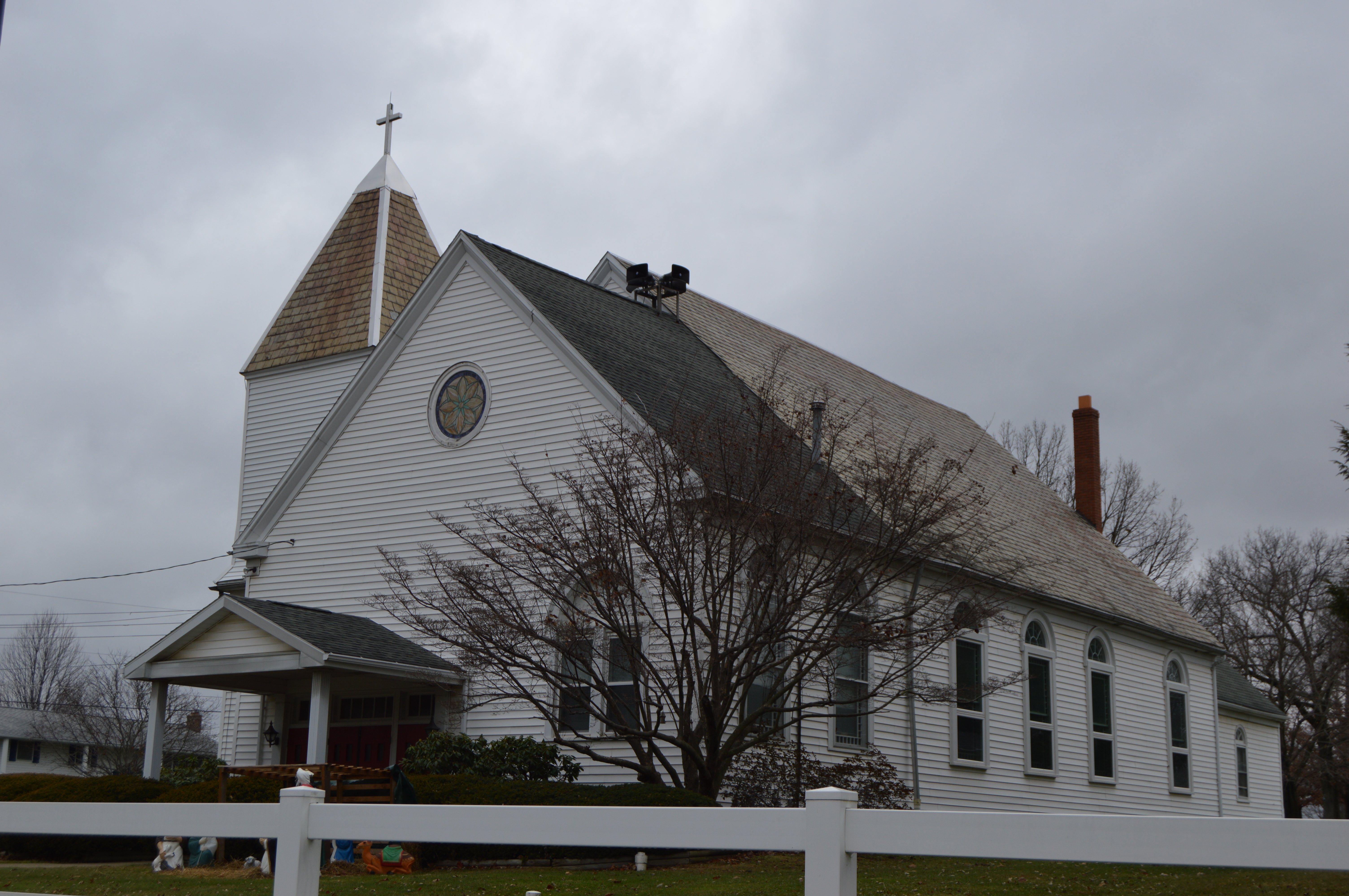 Front and eastern side of White Oak Springs Presbyterian Church, located at 102 Shannon Road in Connoquenessing Township, Butler County, Pennsylvania, United States.